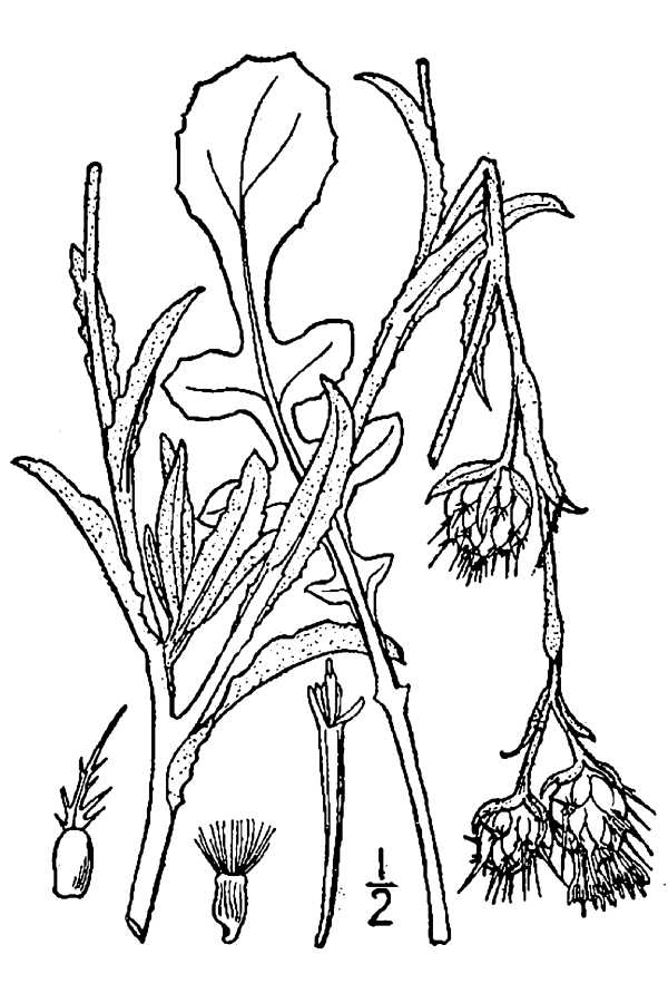 Drawing for life of herbaceus Maltese star-thistle Centaurea melitensis. Britton, N.L., and A. Brown. 1913. Illustrated flora of the northern states and Canada. Vol. 3: 559. Courtesy of Kentucky Native Plant Society.